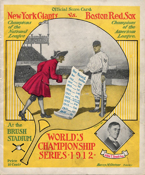 A program of the 1912 World Series.